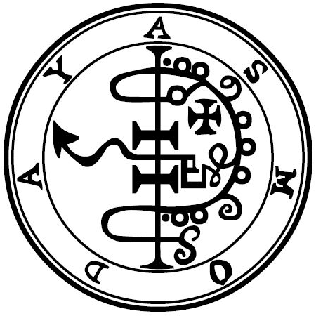 Asmoday seal, THE BOOK OF THE GOETIA OF SOLOMON THE KING (1904)